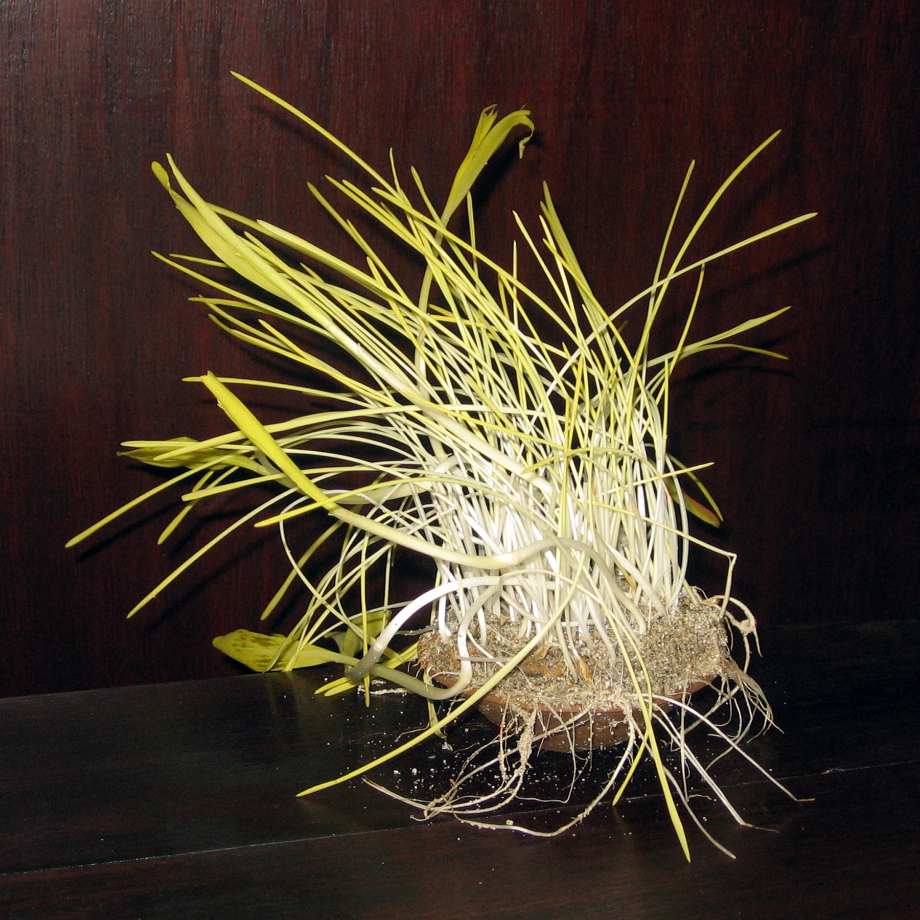 Nalaswan or barley shoots grown for the Mohani festival, Kathmandu.